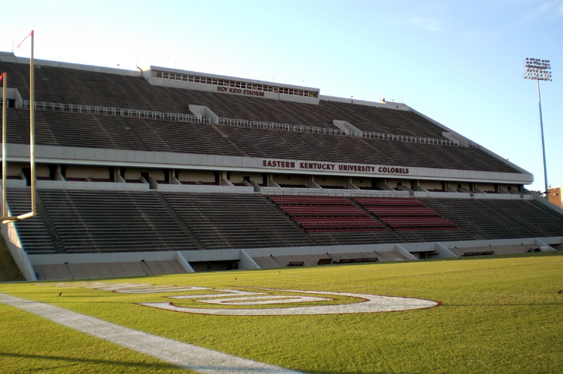 Exterior photograph of Roy Kidd Stadium on Eastern Kentucky University's campus